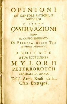 Pier Franceso Tosi: Opinioni... (cover)